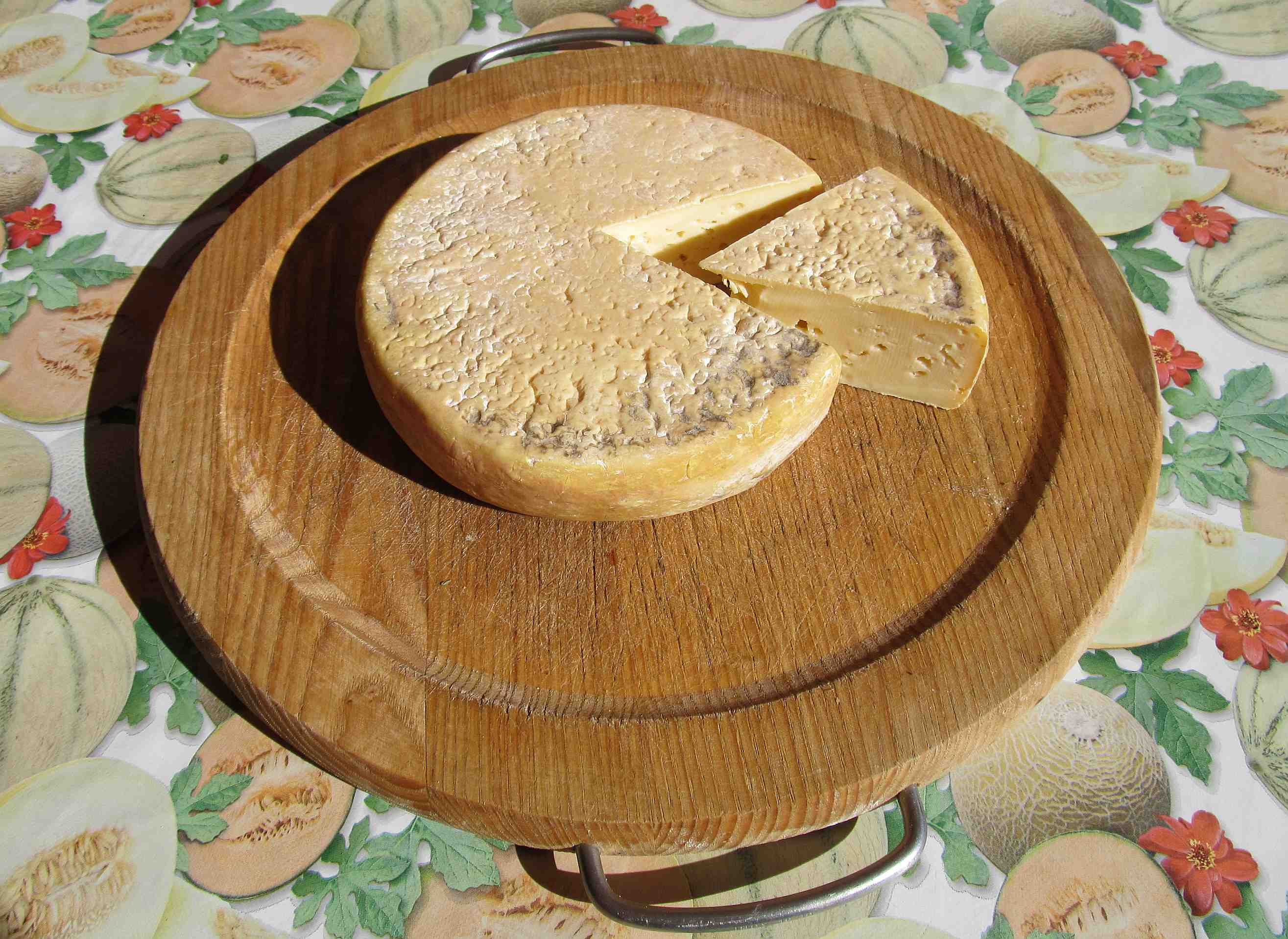 Maccagno cheese, a traditional product of Biellese and Valsesia (Piedmont, Italy) Piemontèis: na forma ëd Macagn